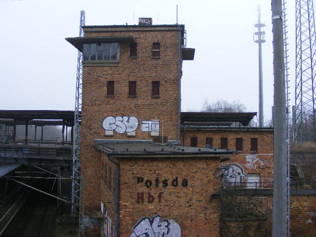 Potsdam Pirschheide train station, Germany